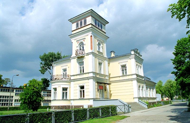 Augustow in Poland